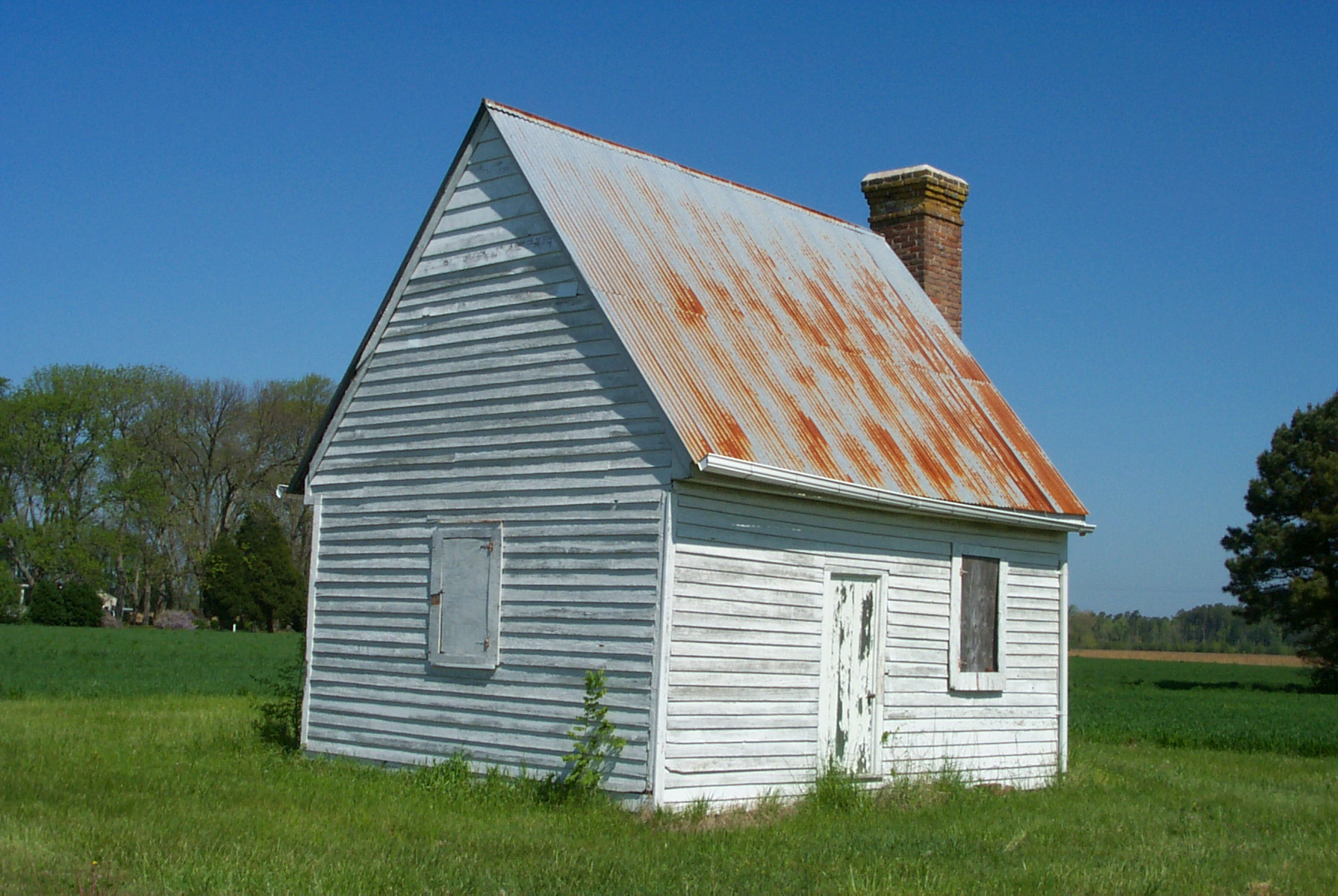 Image of Pear Valley in Eastville, VA